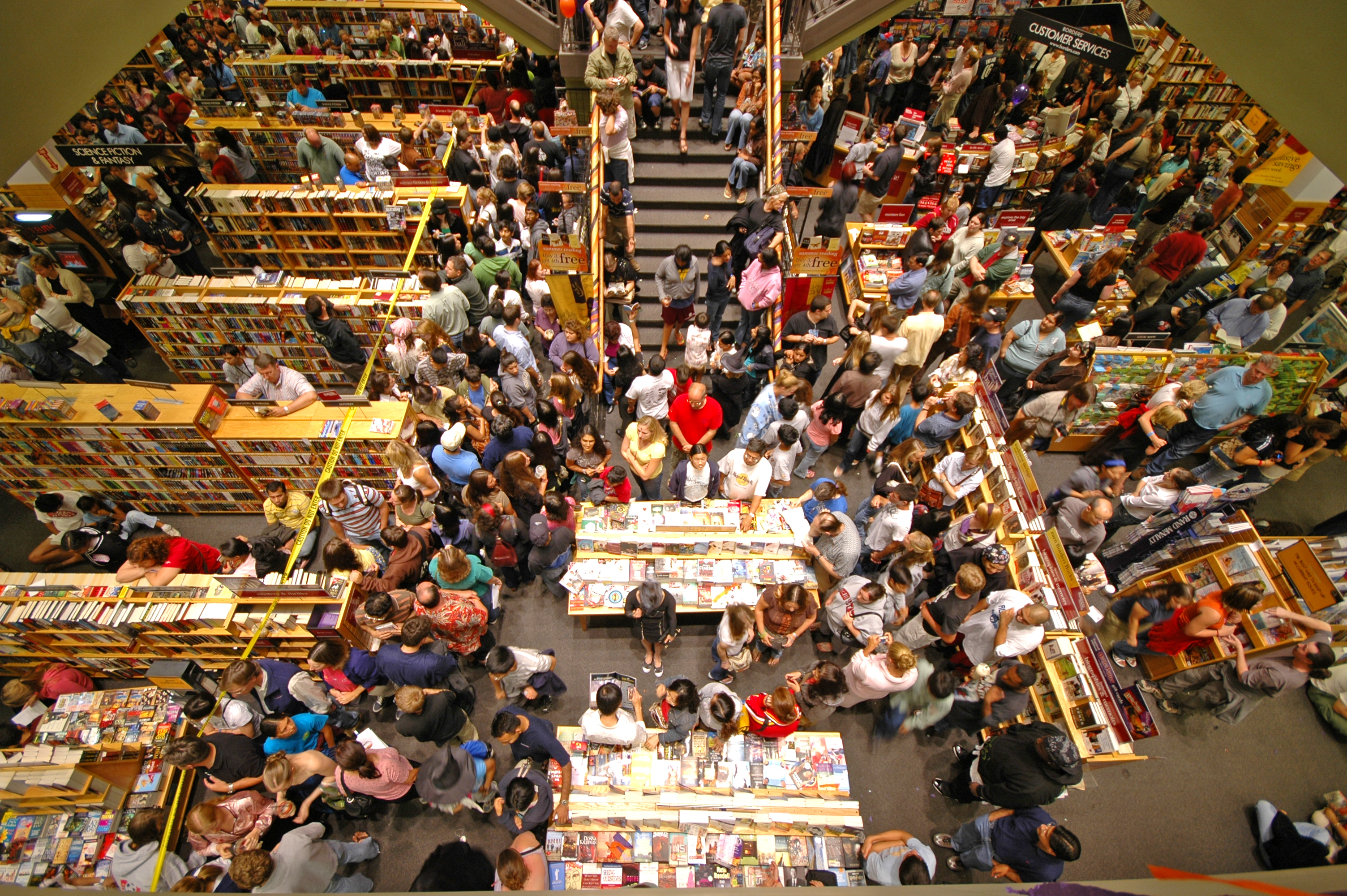 Waiting for the book Harry Potter and the Deathly Hallows in a californian bookshop (Borders, Sunnyvale), 5 minutes before the book's official publication